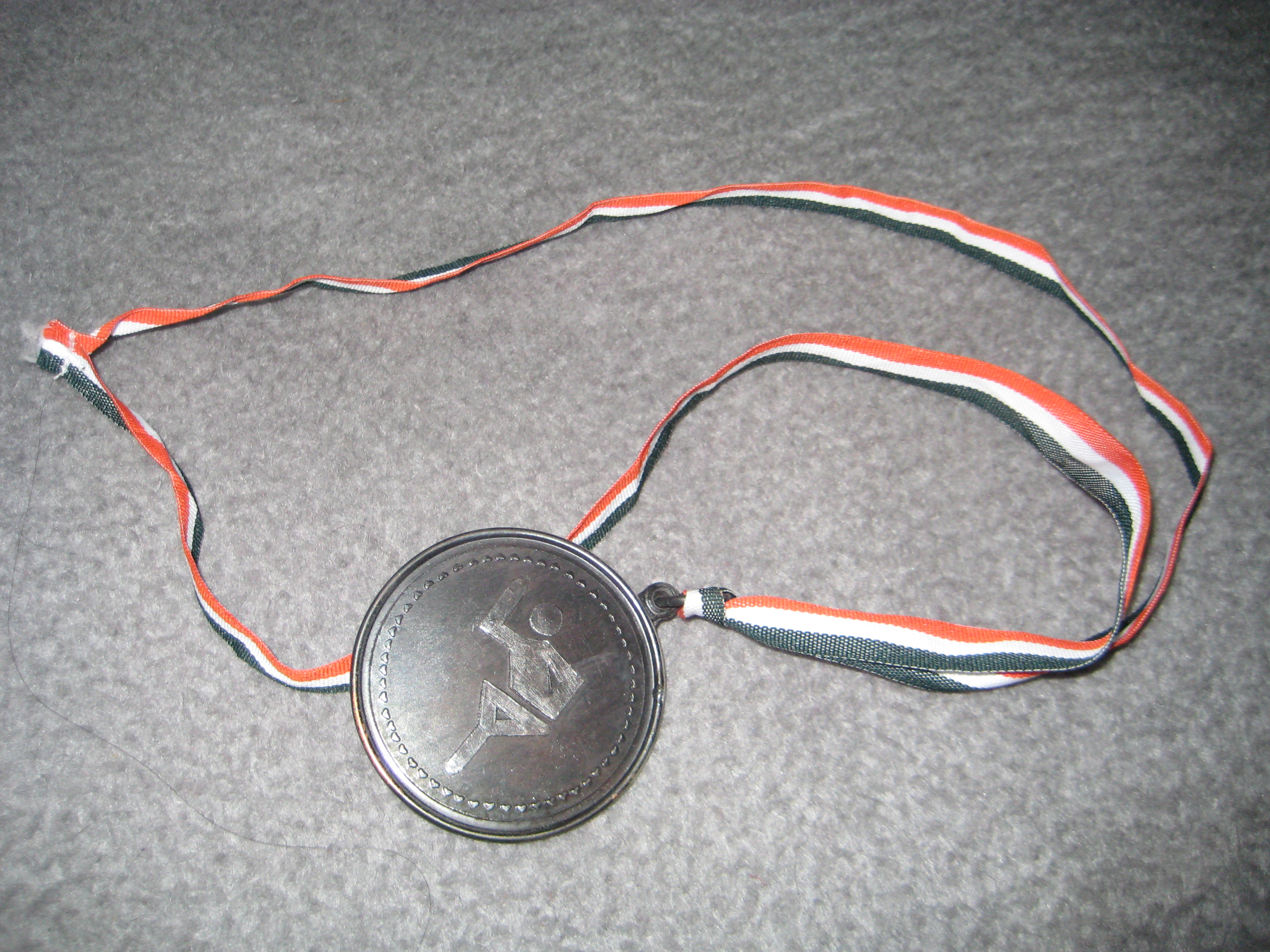 Bronze Medal